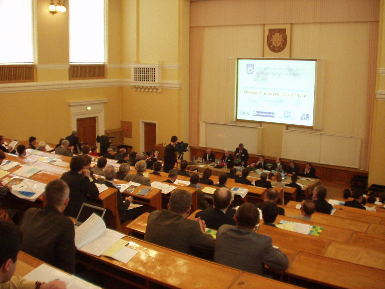 "Internet and Science: 15 years together" conference in Kurchatov Institute on 10.11.2005 which was dedicated to the 15-year anniversary of .su domain